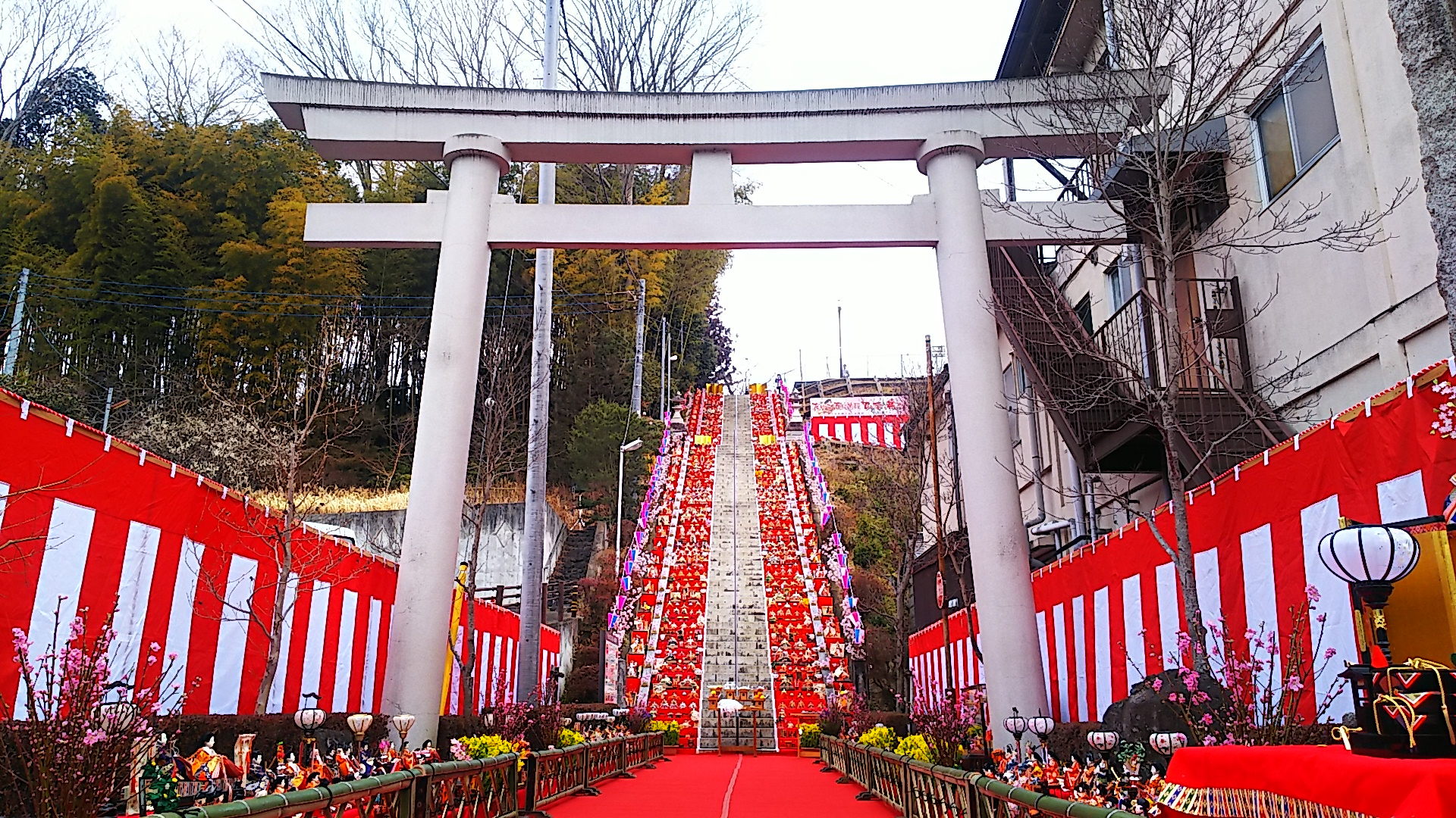 "Hyakudannkaidann de Hina Matsuri" is festival held at Jyouni-Jinja, a Shintō shrine in Daigo, Ibaraki, Japan.